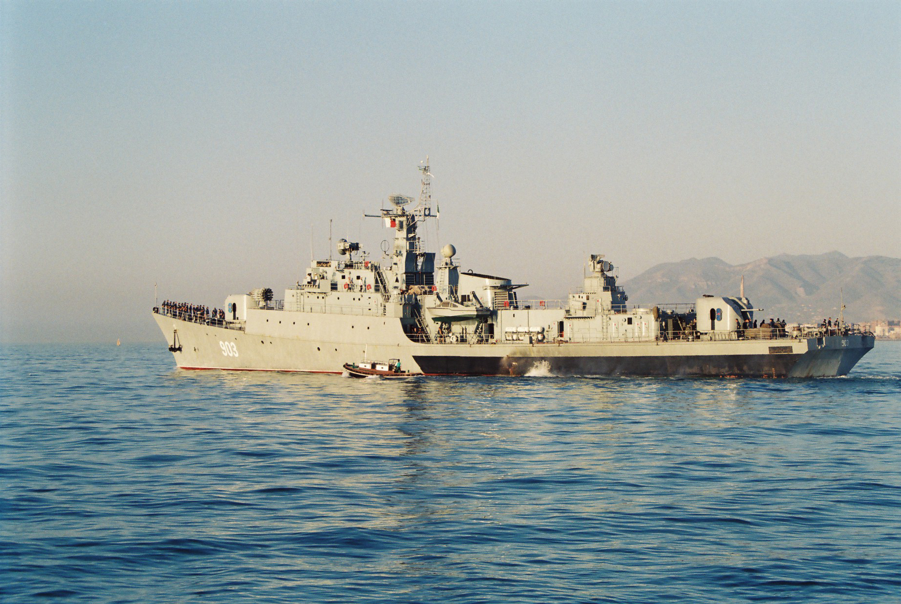 Algerian frigate project 1159-T Rais Korfou, former the Soviet ship SKR-129, in Málaga.